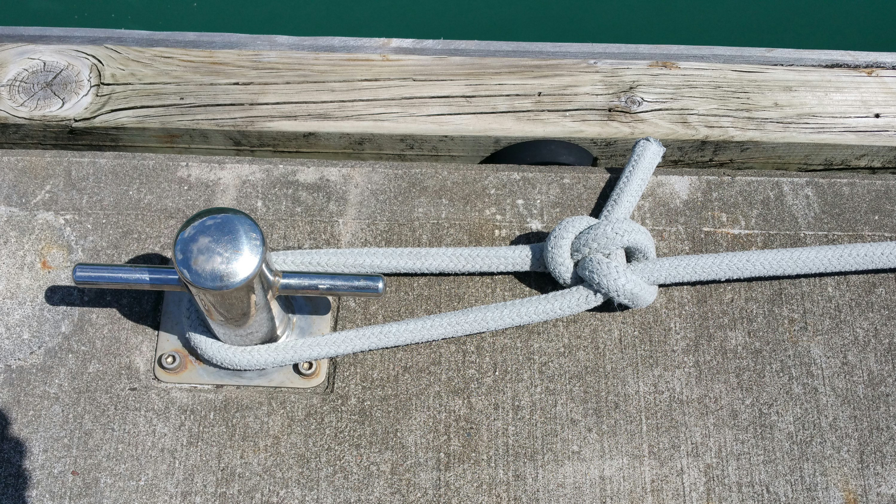 Bowline knot. Left hand nipping loop, tail inside eye